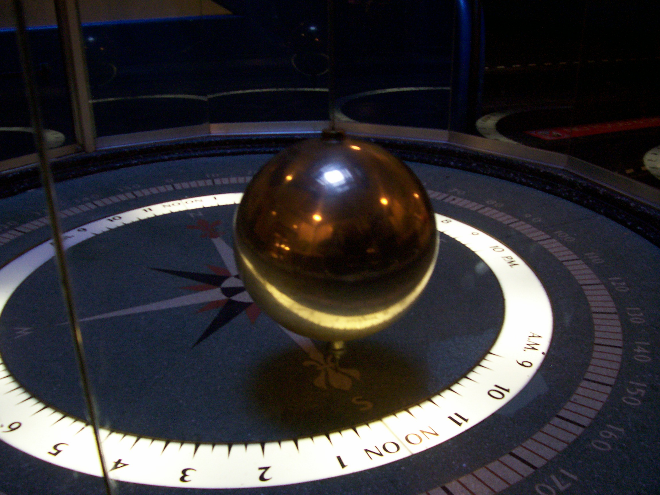 The pendulum clock at the Chicago Museum of Science and Industry in Chicago, Illinois, USA.